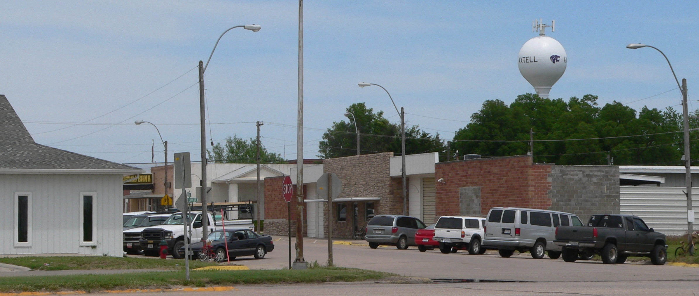 Downtown Axtell, Nebraska: east side of Main Street, looking north from about U.S. Highway 6/U.S. Highway 34.